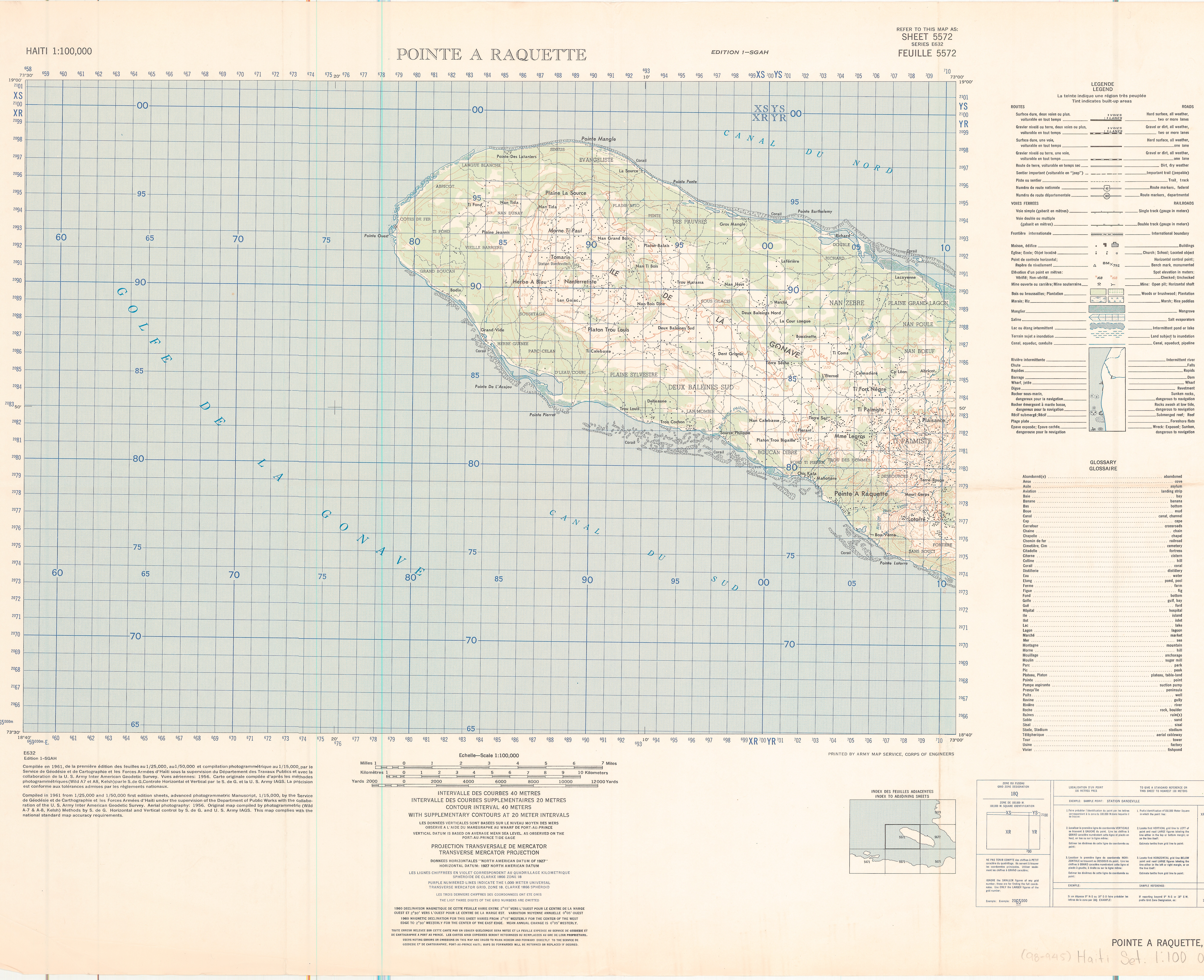 Some maps lack series statement. Some maps printed by Army Map Service, Corps of Engineers. Standard maps series designation: Series E632 Includes index to adjacent sheets, glossary, explanatory chart. Some maps have index to boundaries. Language: English and French. Relief shown by contours and spot heights.